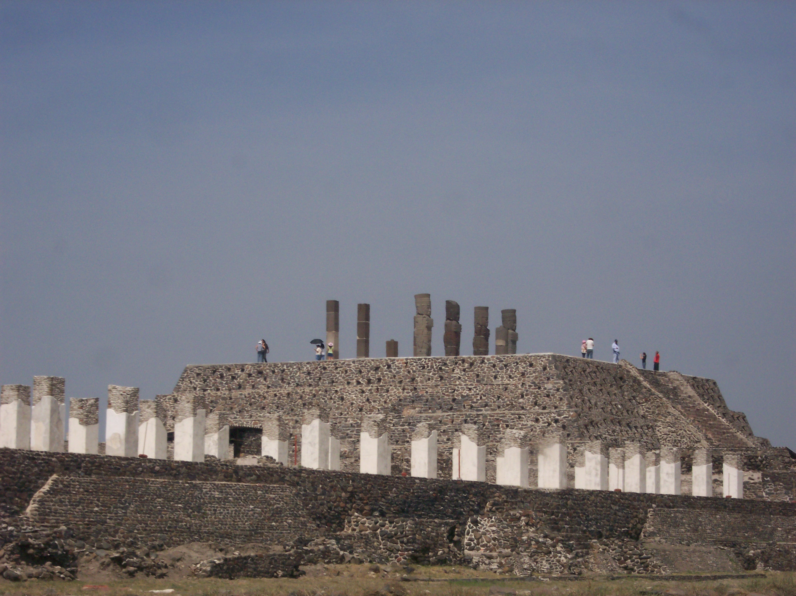 Photograph from the ancient mexican place Tollan-Xicocotitlan. Now an archeological site.